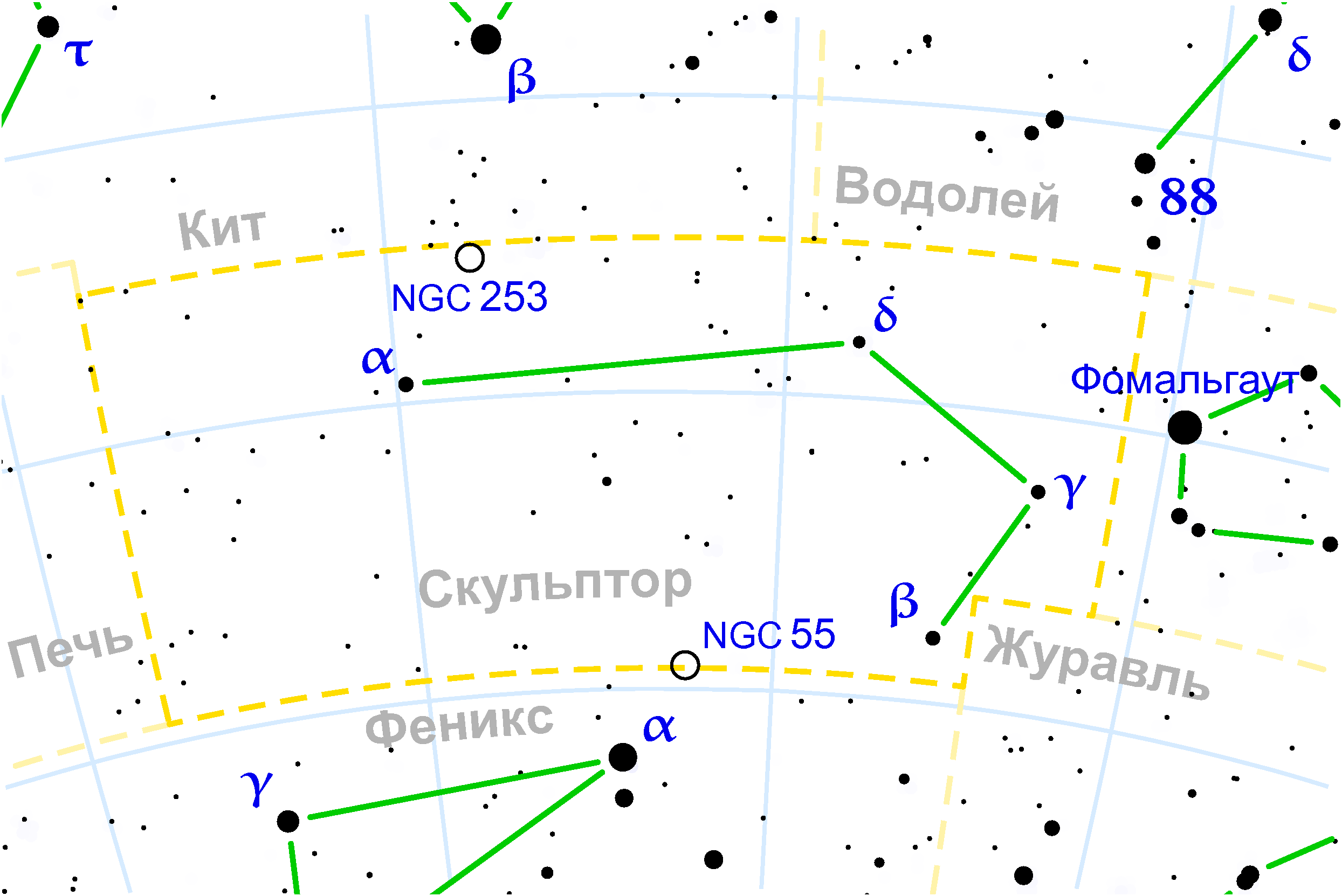 Sculptor constellation map in Russian